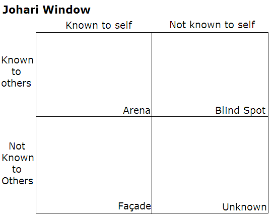 An empty Johari window, with the "rooms" arranged clockwise, starting with Room 1 at the top left